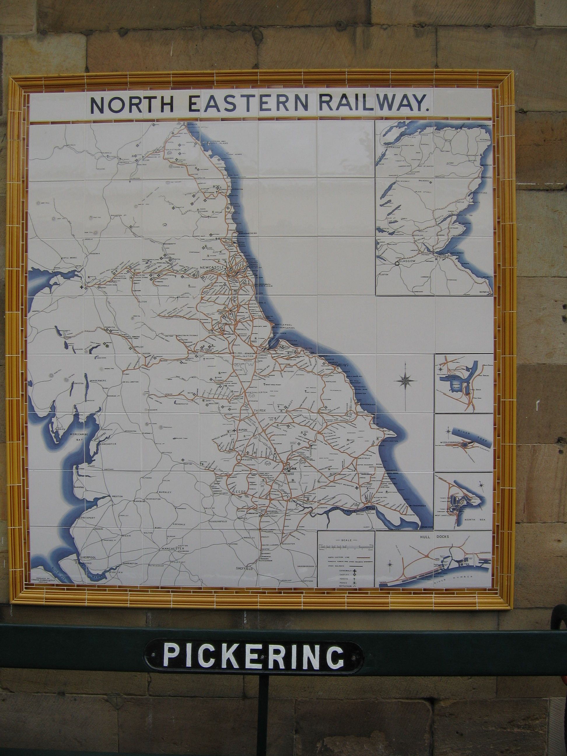 Network map of North Eastern Railway, Pickering station